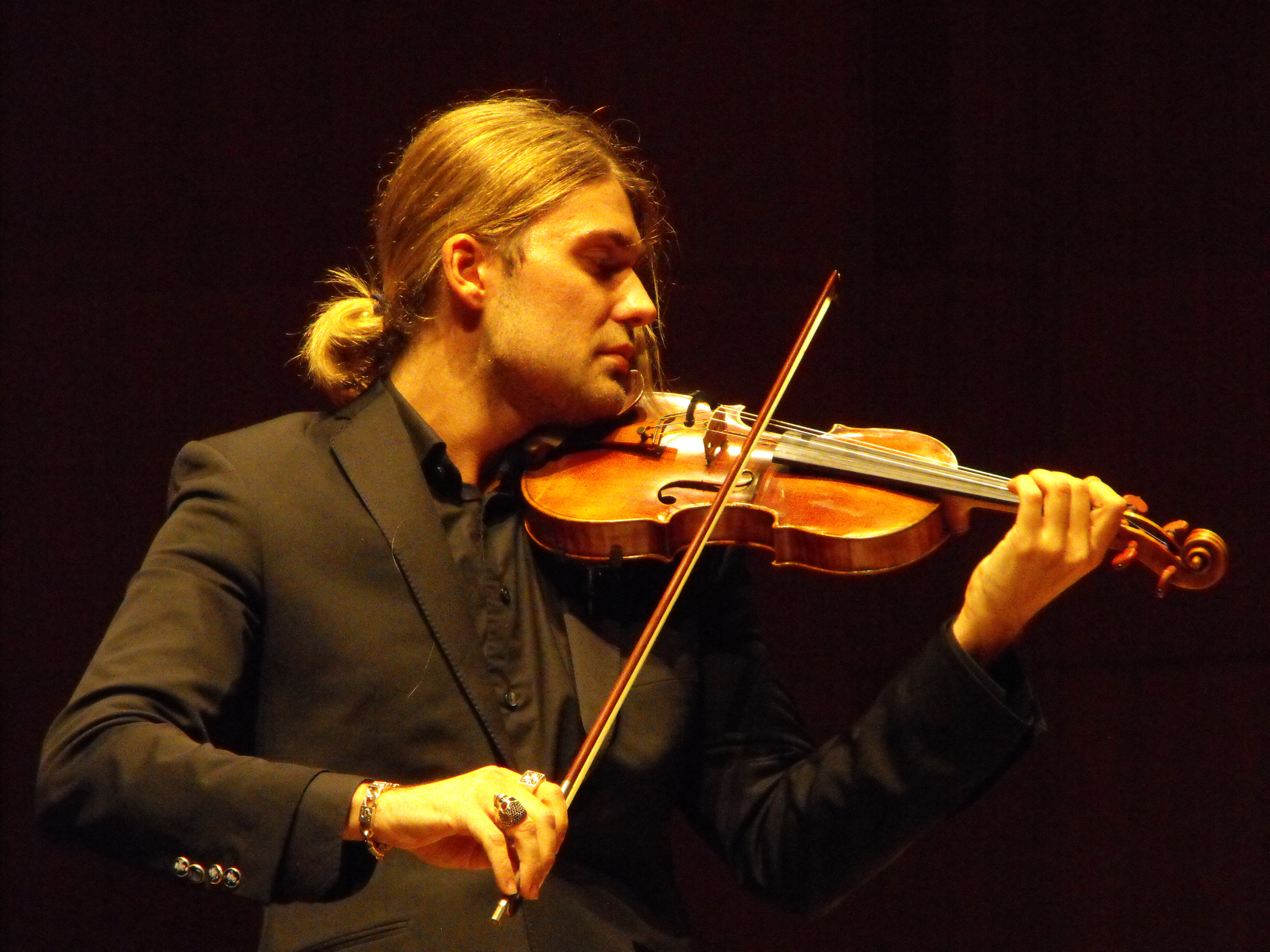 David Garrett performing Bruch Violin Concerto at Liederhalle, Stuttgart, Germany